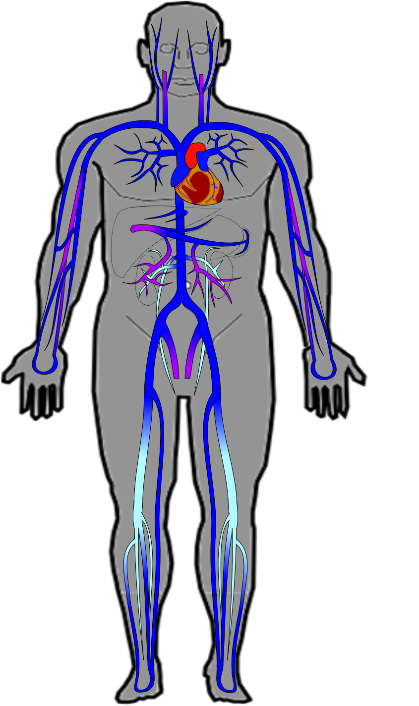 unlabeled diagram of the major veins